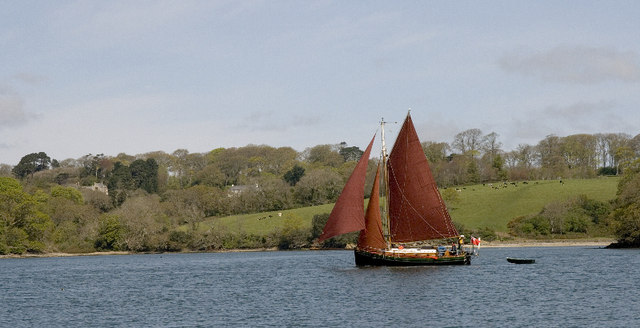 Channals Creek, River Fal The Gaffer is crossing the mouth of Channals Creek which leads to a small beach below Trelissick House. At centre L background, in the trees, is a modern house called "Lis Escop", home to Bishops of Truro since the old palace was turned into a private school some years ago.